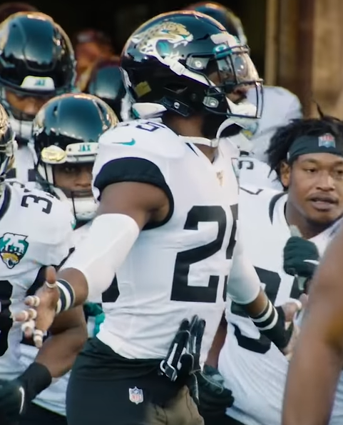 DJ Hayden 2019. Image from video Titans Mic'd Up vs. Jaguars (Week 12) | Sounds of the Game, ~ 00:26